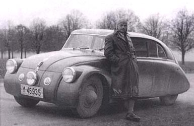 Erich Übelacker in front of the unique Tatra 77 twodoor